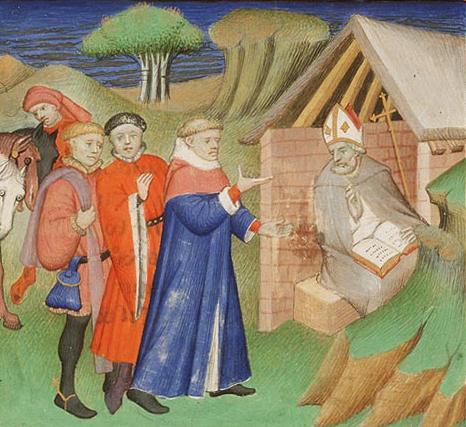 Vincent of Beauvais, Le Miroir Historial (Vol. IV) Place of origin, date: Paris, Master of the Cité des Dames (illuminator); c. 1400- 1410 Material: Vellum, ff. 401, 425x320 (254x196) mm, 2 columns, 43 lines, littera cursiva. French. Binding: 18th-century brown leather, gilt, with coat of arms of Stadtholder William V Decoration: 1 two-column miniature (185x200 mm with border decoration), 19 column miniatures (110/70x90/85 mm) with border decoration, 1 illustration in the margin (coat of arms); decorated initials with border decoration (ff. 3r, 10r, 15r, 19r, 20r, etc.) Provenance: Acquired by Philip of Cleves (d. 1528) before 1492 (coat of arms with label); purchased in 1531 from his estate by Henri III, Count of Nassau (d. 1538); by inheritance to the Princes of Orange-Nassau, the later Stadtholders at The Hague; taken in 1795 to Paris by the French occupying forces and restituted in 1816 to the KB